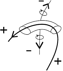 Piarcs Self made